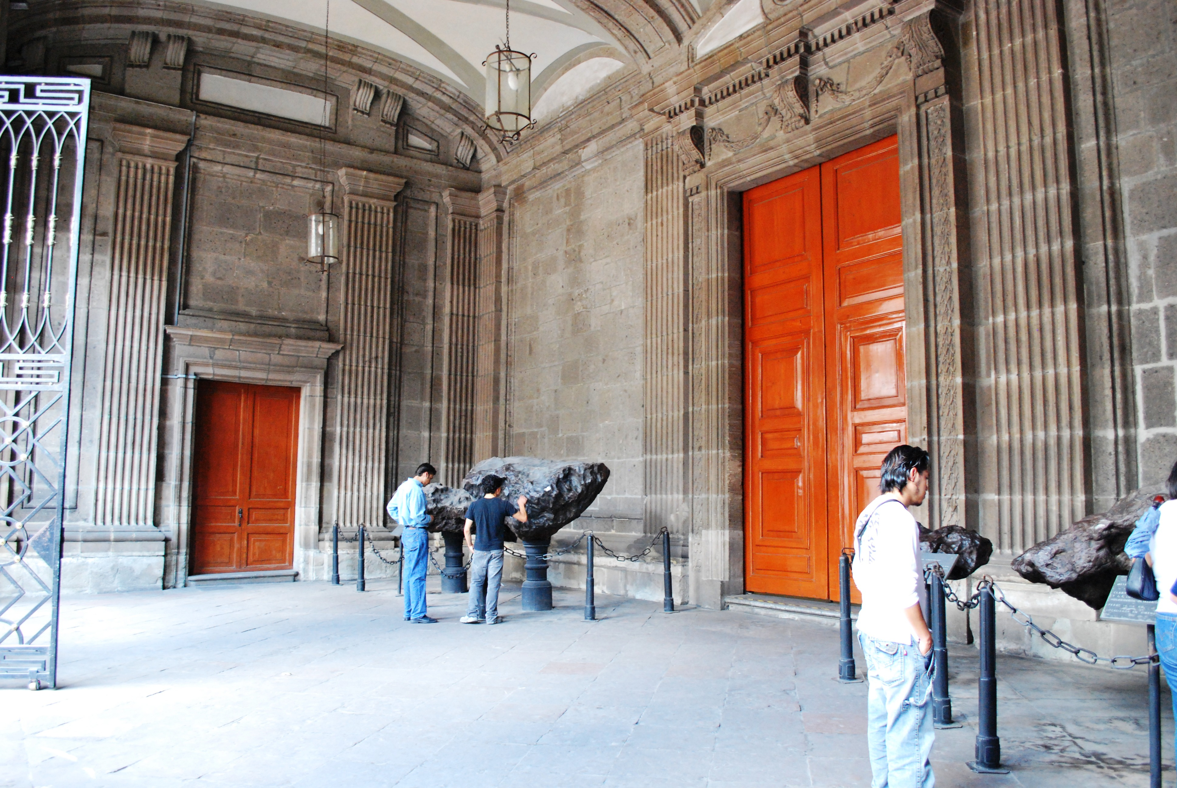 Main foyer of the Palacio/Colegio de Mineria building with large Zacatecas meteorites on display. Located in the historic center of Mexico City